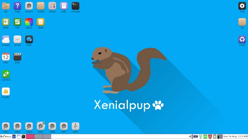 A screenshot of Puppy Linux Xenialpup 7.5 CE